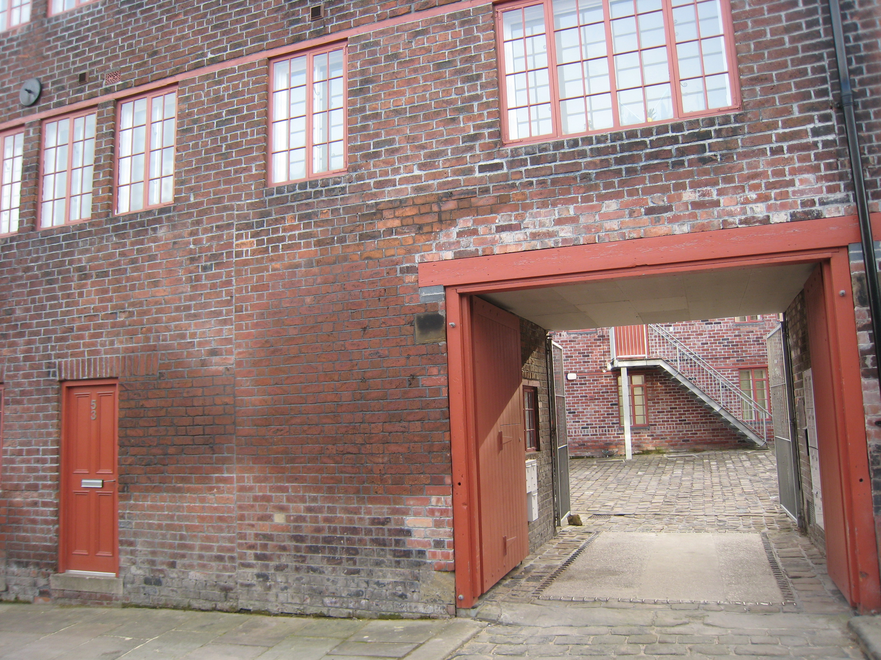 35 Well Meadow Street, Netherthorpe, Sheffield S3 7GS. Former industrial complex with furnace for making steel and cutlery works. Entrance to Joel's Yard.